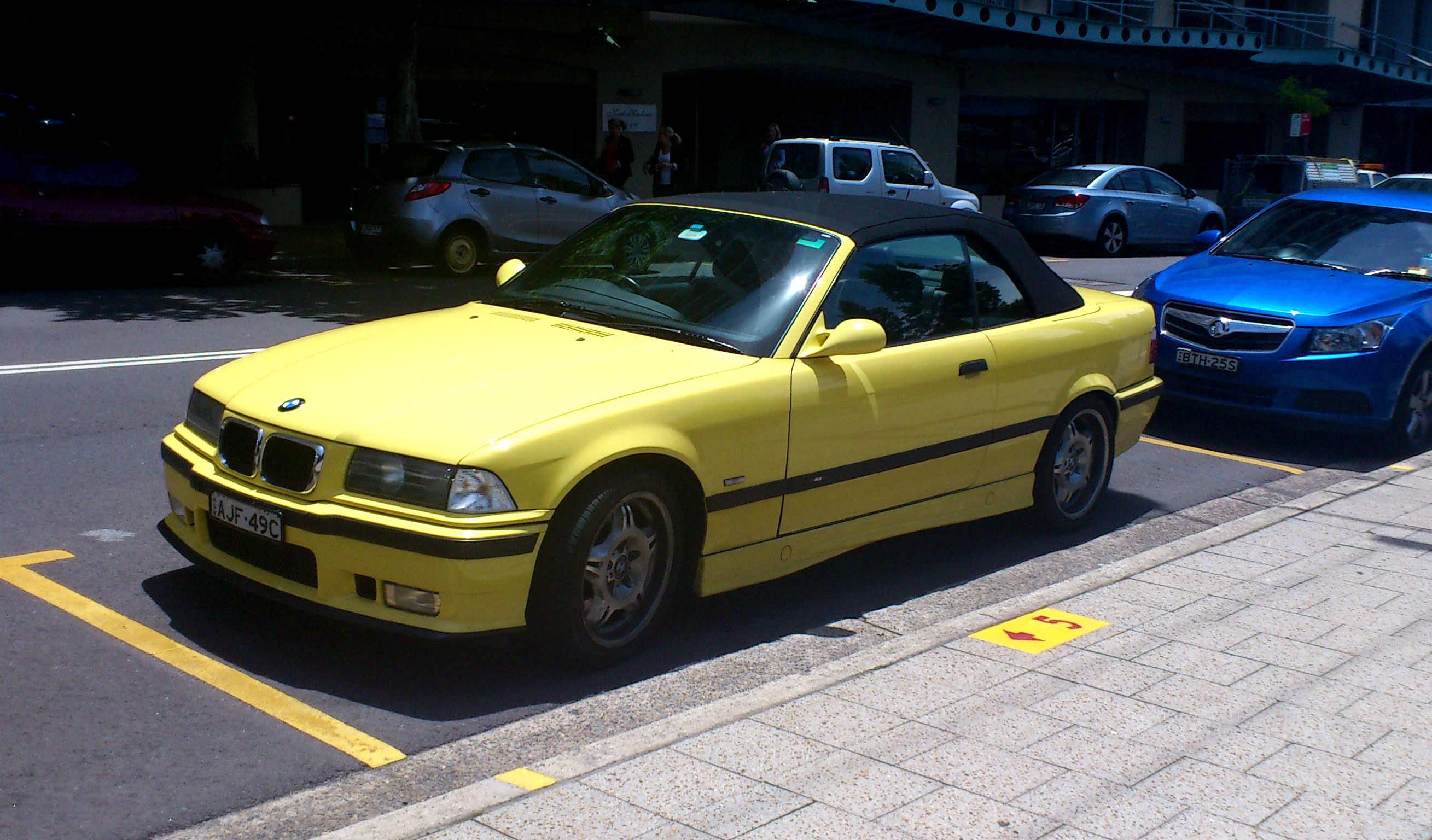 Dakar yellow is one of my favourite E36 colours.